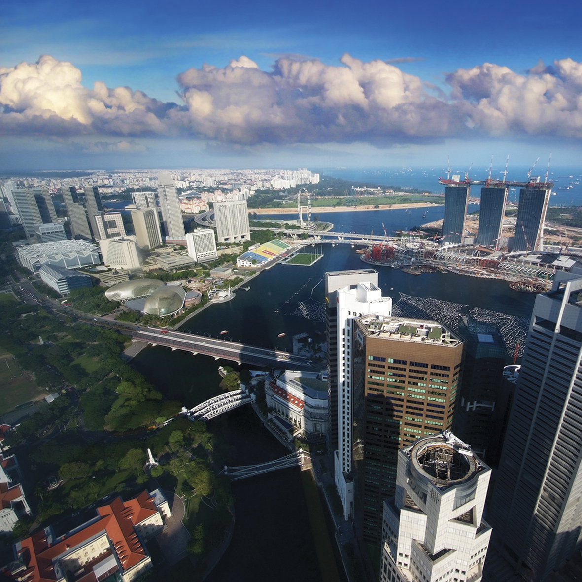 A view from Tian Fu Teahouse on the 60th floor of UOB Plaza 1. Suntec City and the Esplanade – Theatres on the Bay can be seen on the left, and Marina Bay Sands and part of the Central Business District on the right. (The clouds were digitally added, and there was mild tweaking with curves and sharpening.)